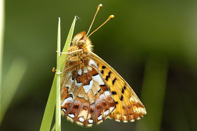 Picture taken in Commanster, Belgian High Ardennes . Species: Boloria aquilonaris